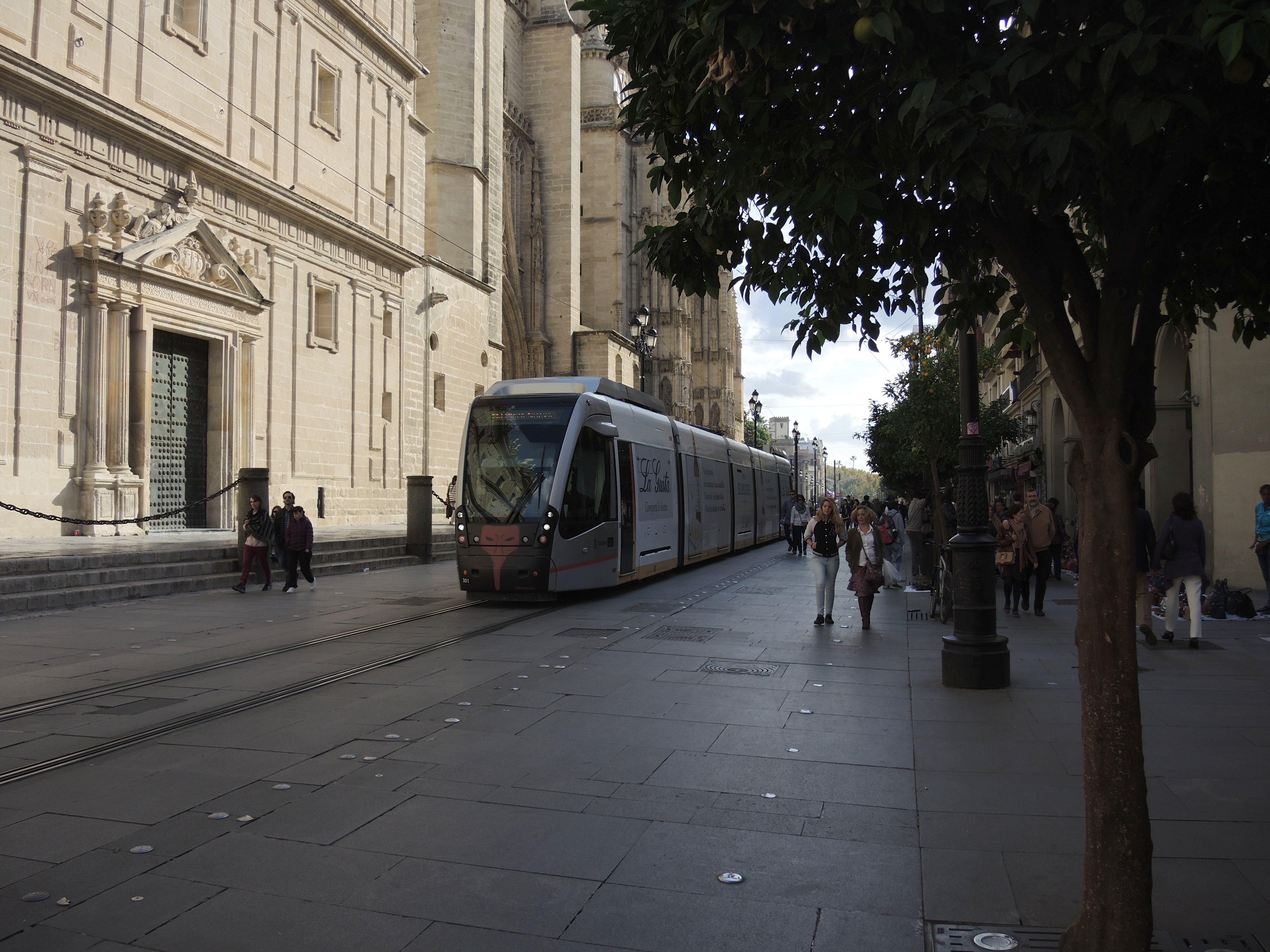 MetroCentro tram passing Seville Cathedral 2014